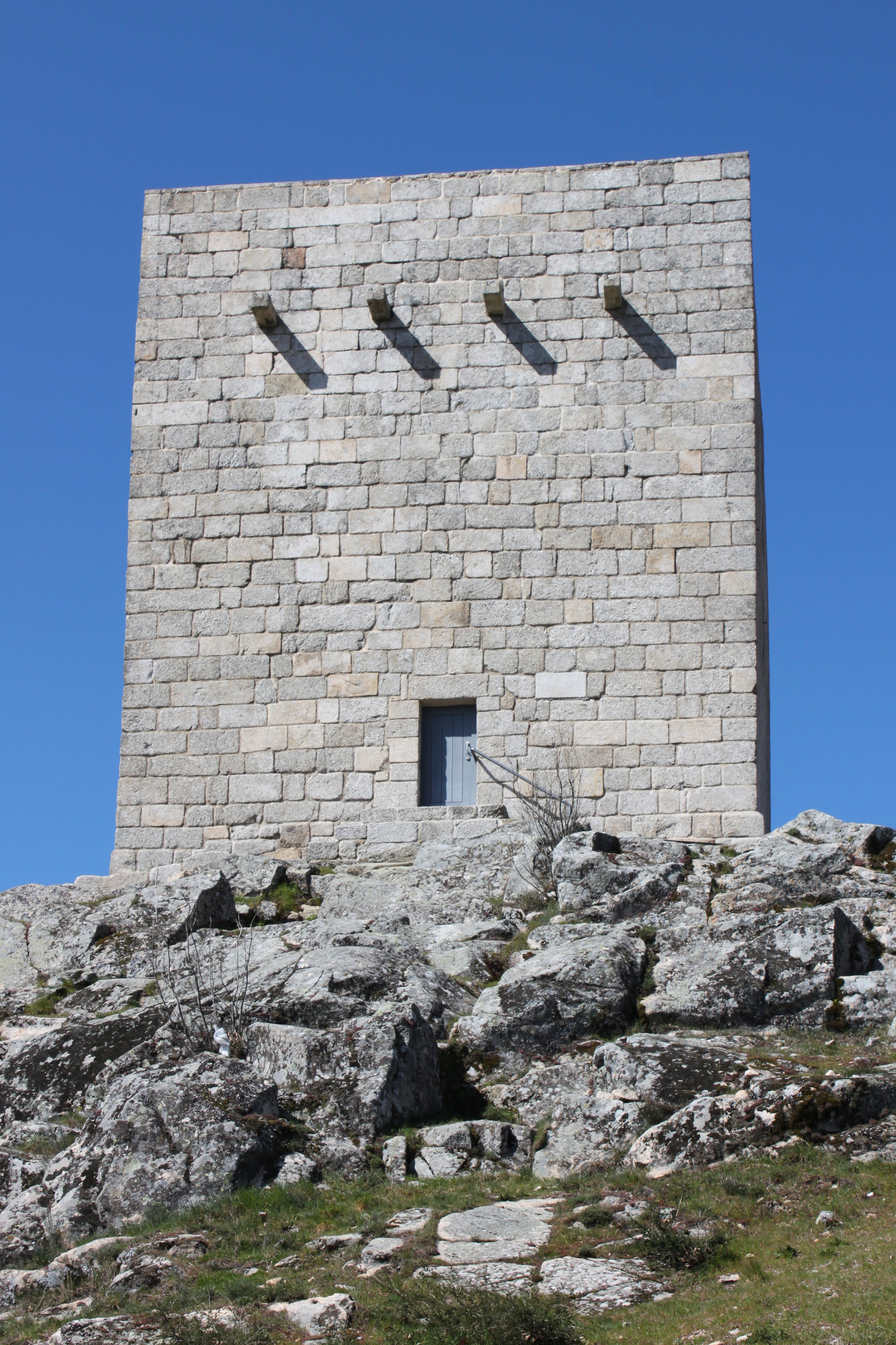 This file was uploaded for Wiki Loves Monuments in Portugal with the unique identifier 71097. This monument is classified as Monumento Nacional. This building is classified as Monumento Nacional.